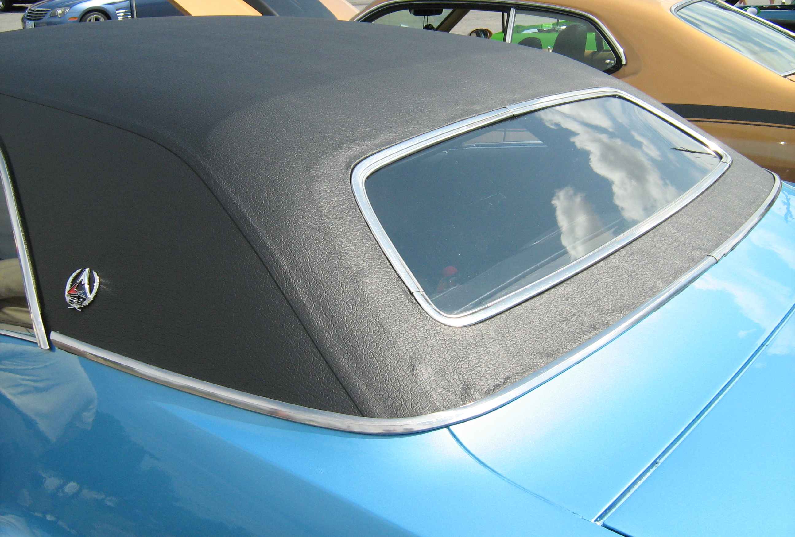 Dodge Challenger SE model with its "formal" rear window and vinyl covered roof.